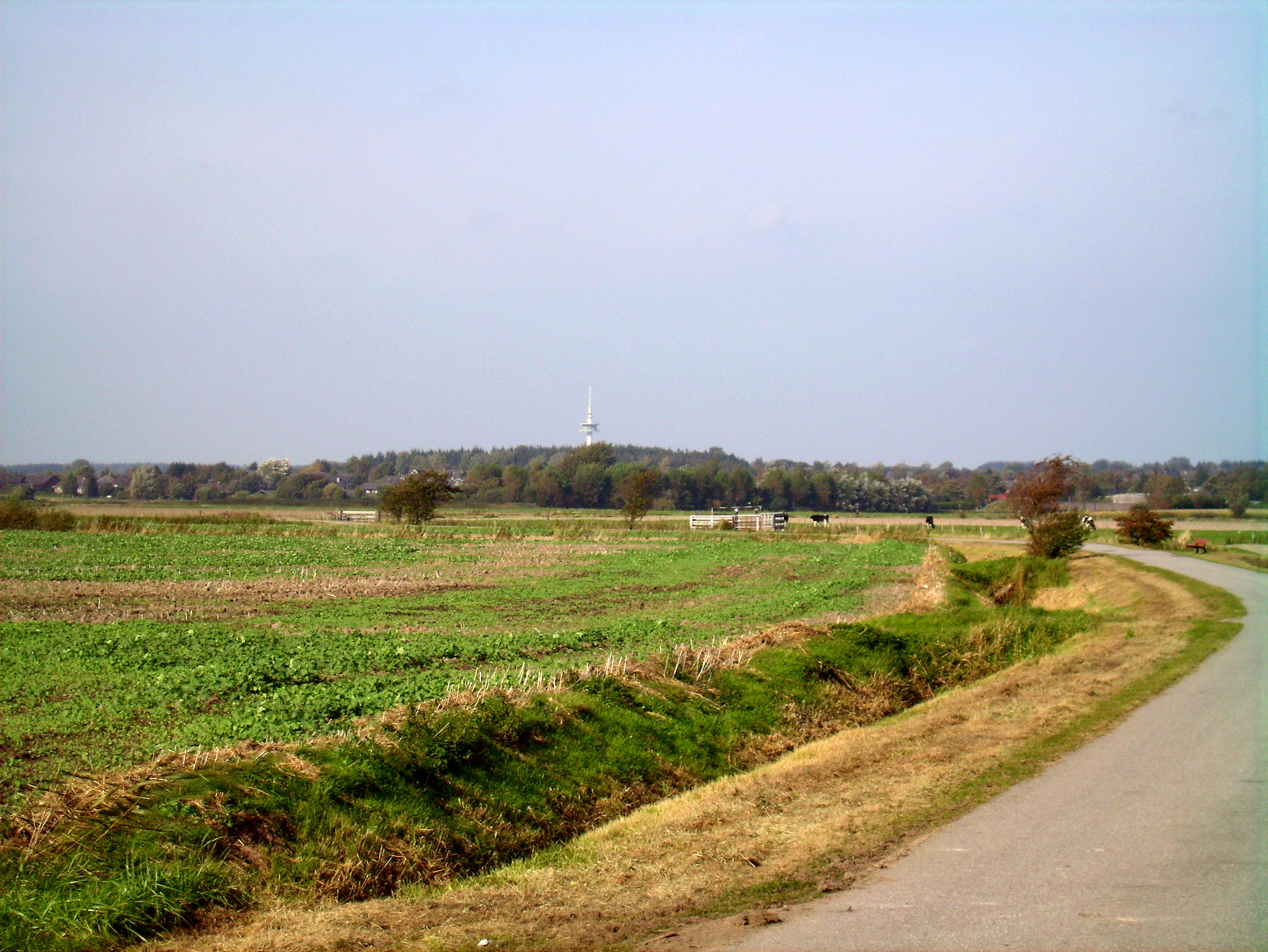 View from 'Bredstedter Koog' to the Stollberg with Telecommunication Tower in North Frisia, Germany